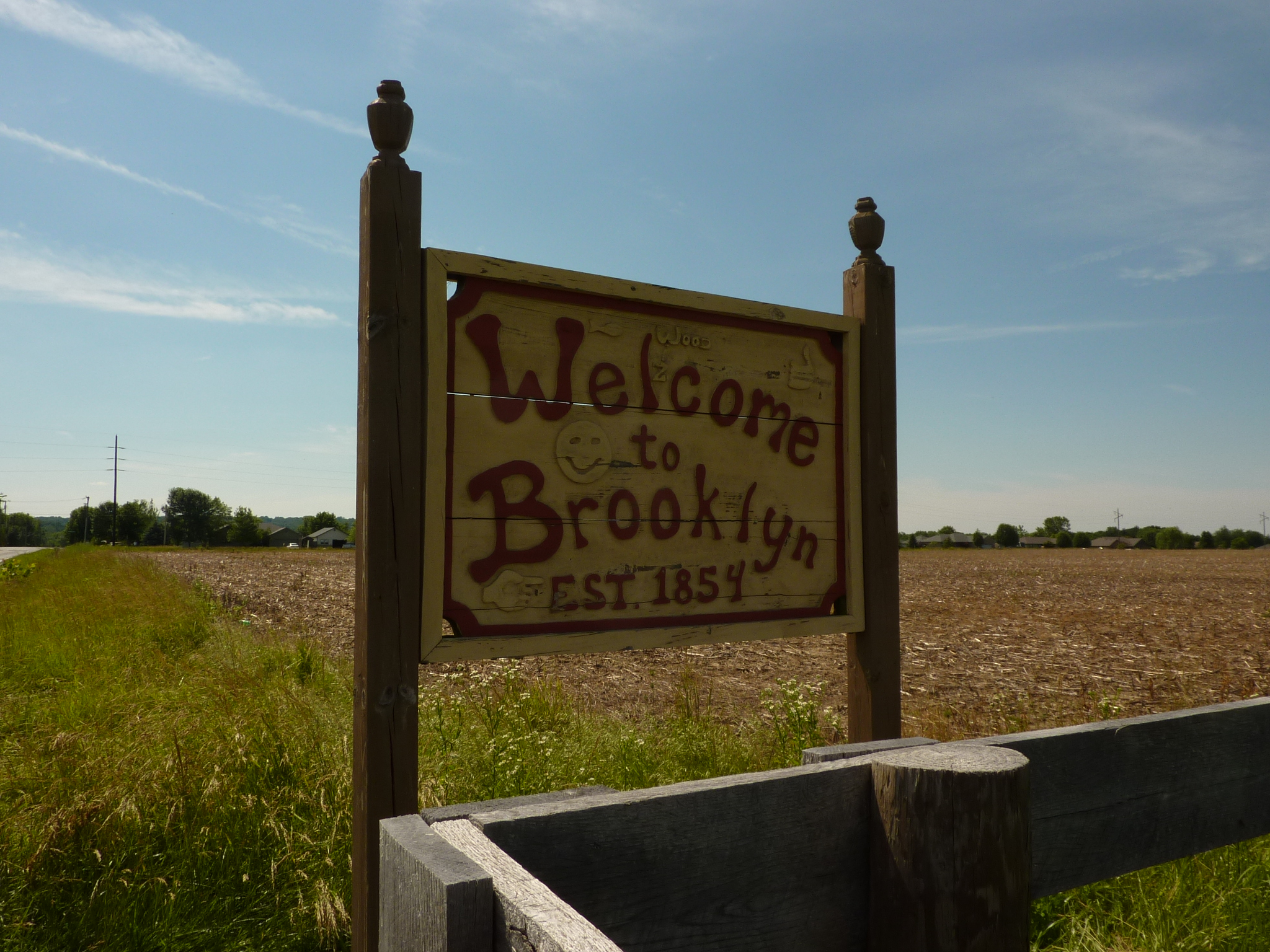 Brooklyn, Morgan County, Indiana. Sign at the eastern end of the village.